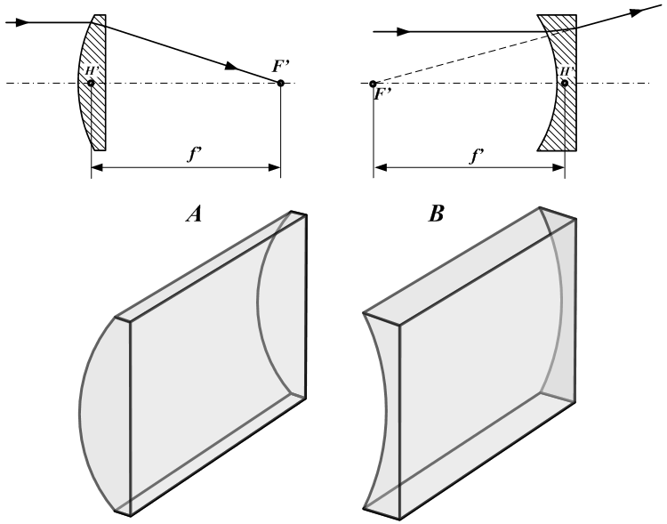 Cylindrical lenses. A- Plano-Convex cylindrical lens B - Plano-Concave cylindrical lens